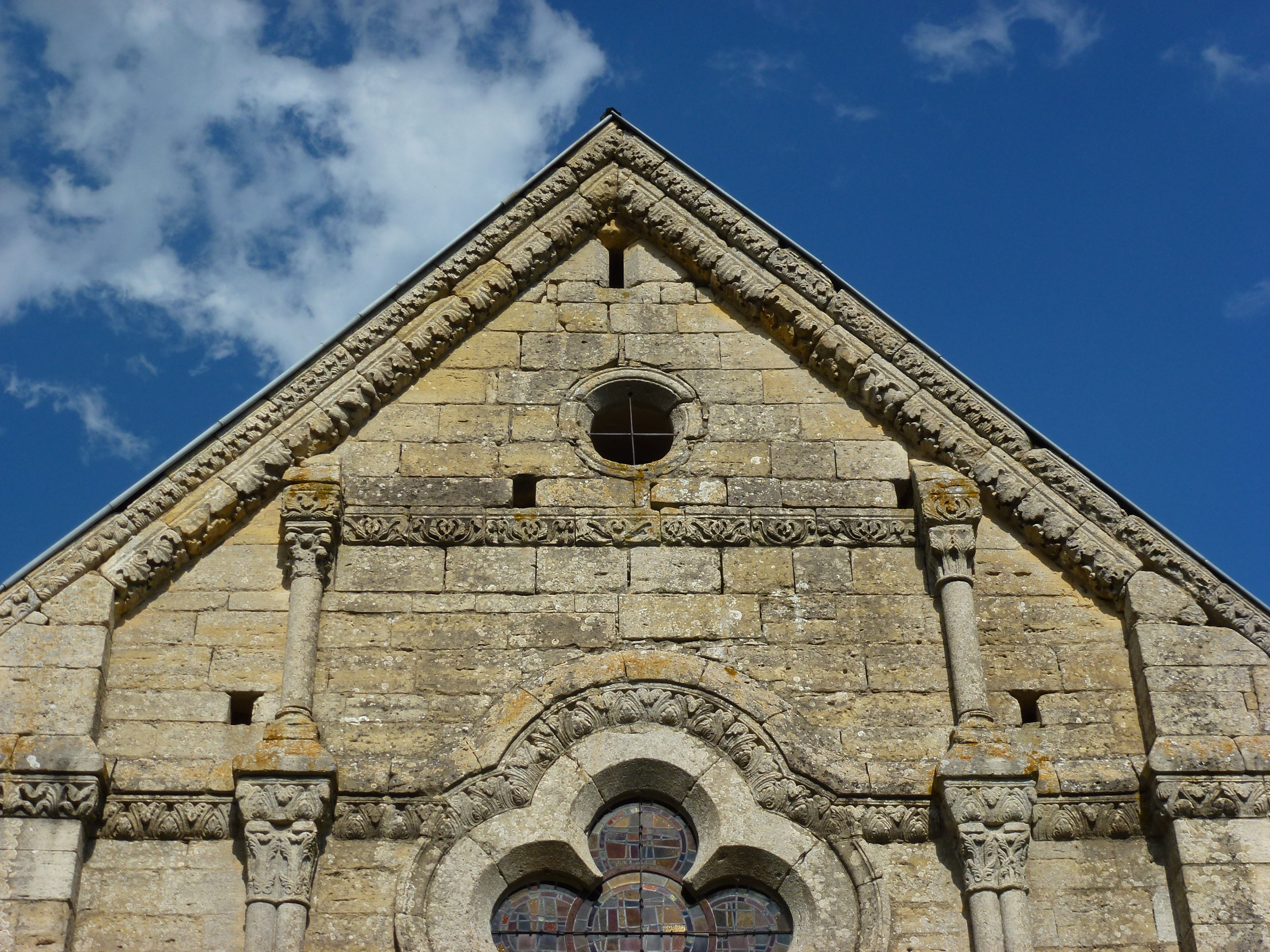 Sorcy-Bauthémont (Ardennes) église Notre-Dame, pignon de la façade